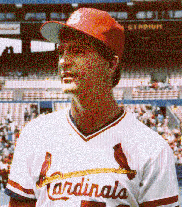 Cardinal Pitcher Greg Mathews.